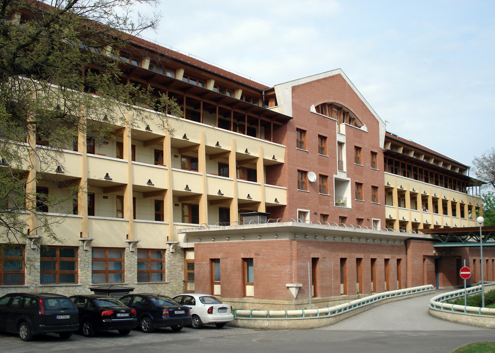 A building of Semmelweis Hospital, Miskolc, Hungary